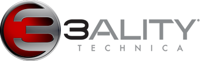 3ality Technica company logo transparent for light backgrounds